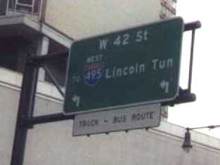 NY 9A south at 42nd St. Taken March 27, 2001 by User:SPUI.